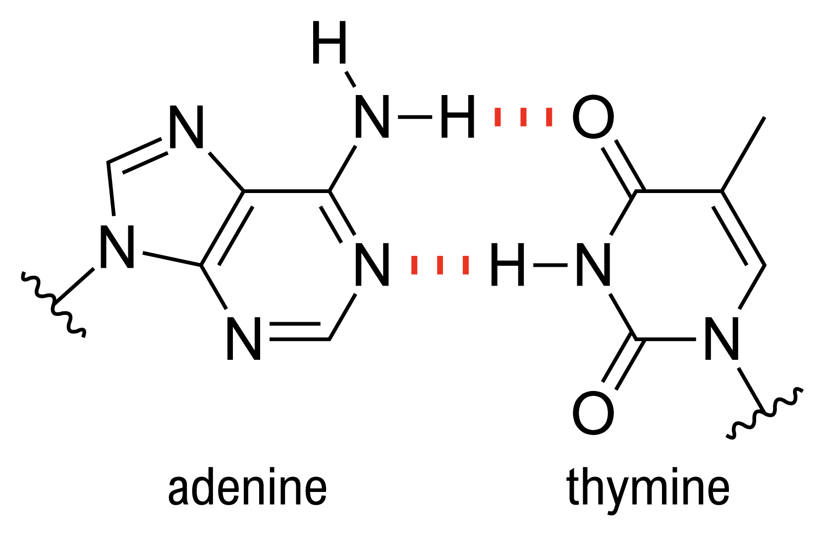 image of a base pair between the adenine and thymine nucleobases